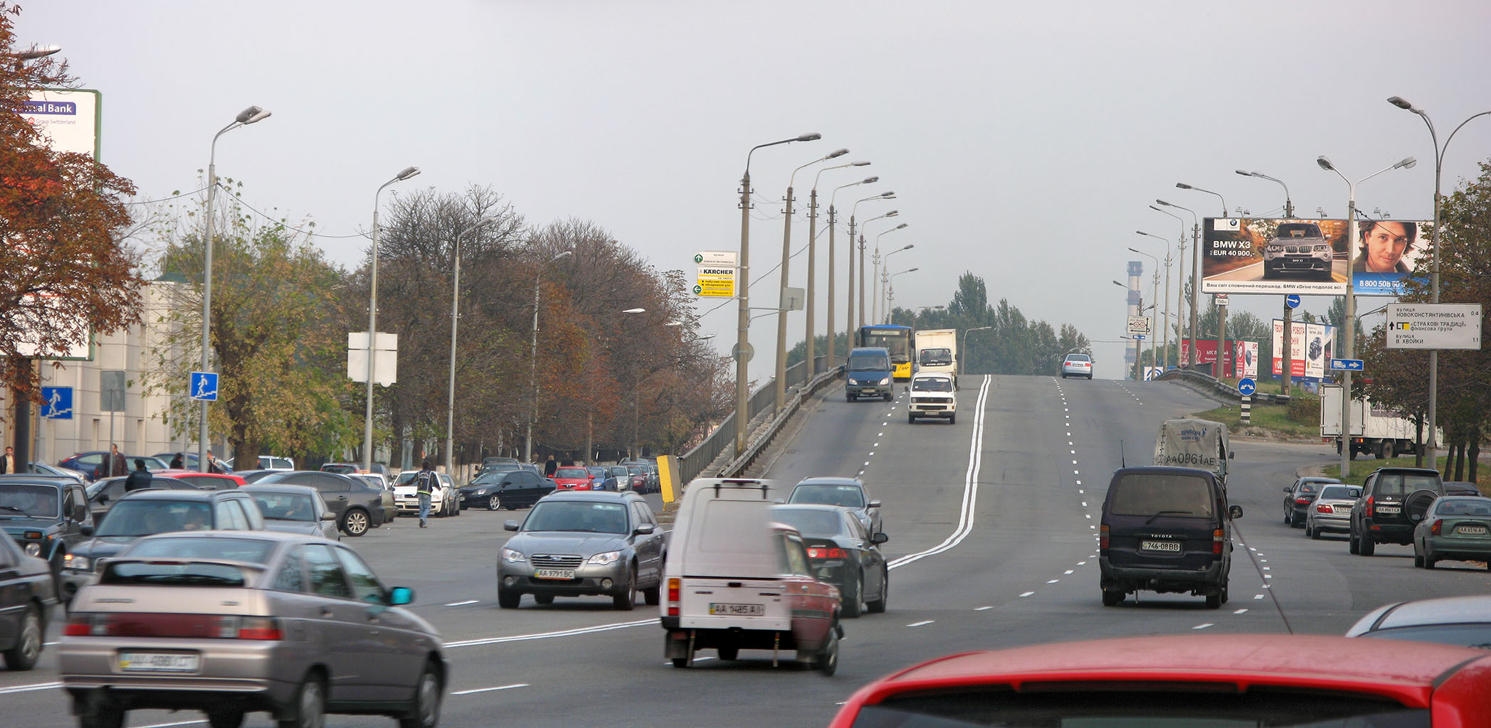 Untitled